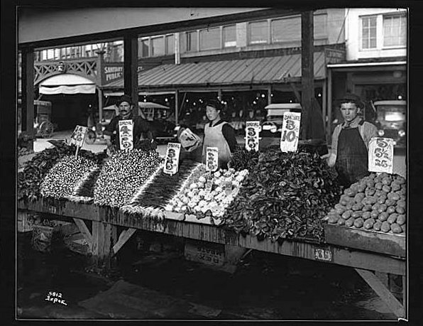 Vegetable vendor daystalls, Pike Place Market, Seattle, Washington, USA, 1917. Reference number printed on image: 5812 Depue. The vendors are standing inside an early version of the Main Arcade; behind them, across Pike Place, you can see the Sanitary Market and (at right) just a bit of the Corner Market.